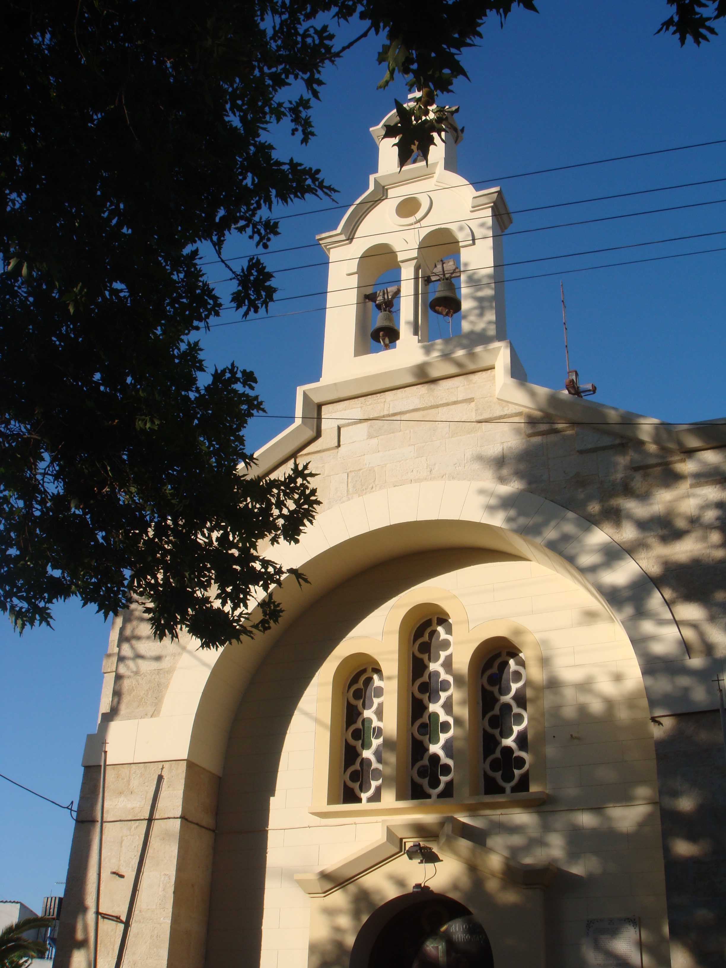 Church of Agios Nikolaos in Peza, the seat of Dimos Kazantzaki, in Iraklion prefecture.